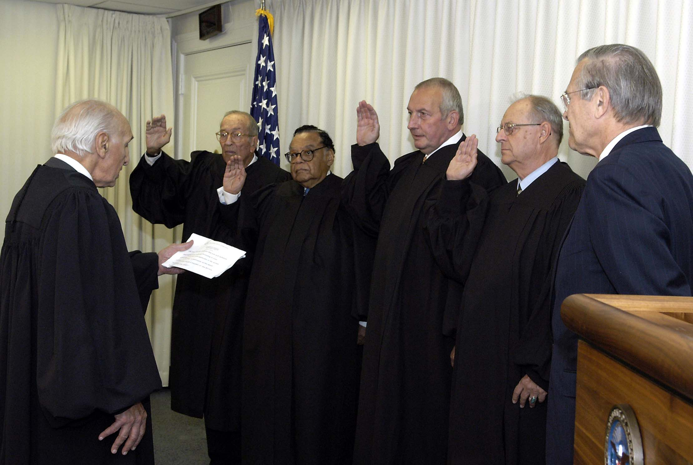 Defense Secretary Donald H. Rumsfeld (right) observes as the first Military Commissions Review Panel members are sworn in September 21 at the Pentagon. Judge Anthony Alaimo, District Court Judge for the 11th Circuit in Georgia, administers the oath of office. The panel members are (left to right) Judge Griffin Bell, former circuit judge, U.S. Court of Appeals, 5th Circuit; William Coleman, former transportation secretary under President Ford; Chief Justice Frank Williams, Rhode Island Supreme Court; and Judge Edward G. Beister, Court of Common Pleas of Bucks County, Pa. Photo by Helene C. Stikkel